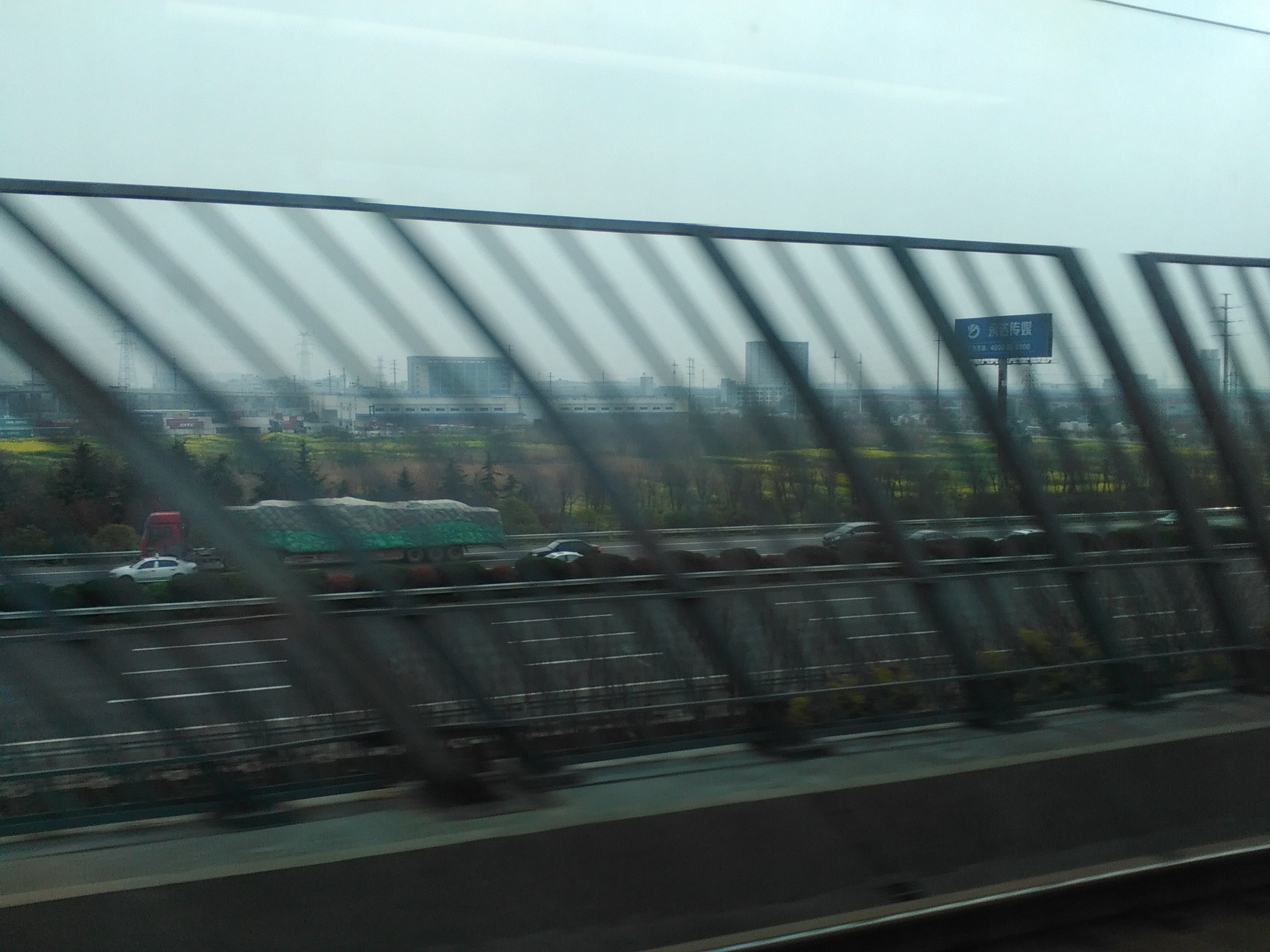 Kunshan section of the G2 Expressway (Beijing-Shanghai, Jinghu)/rhe G42 Expressway (Shanghai-Chengdu, Hurong), also known as the Shanghai-Nanjing (Huning) Expressway, is parallel to the Shanghai-Nanjing High-Speed Railway. We were speeding on the highway before twenty years ago; now, we are speeding on the High-Speed Railway! 中文（中国大陆）: 京沪高速（G2）、沪蓉高速（G42），又称沪宁高速昆山段与沪宁高铁平行。20年前，我们飞驰在高速公路上；今天，我们飞驰在高速铁路上！